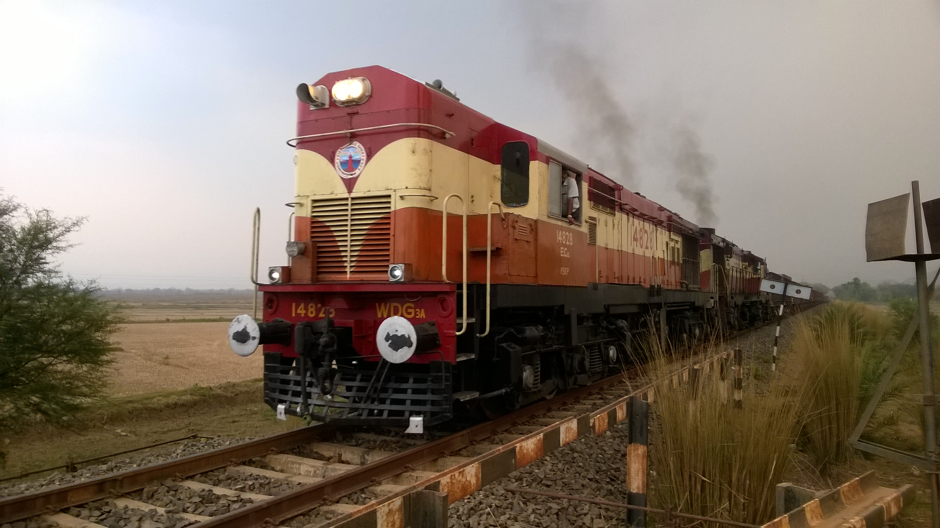 Diesel trains